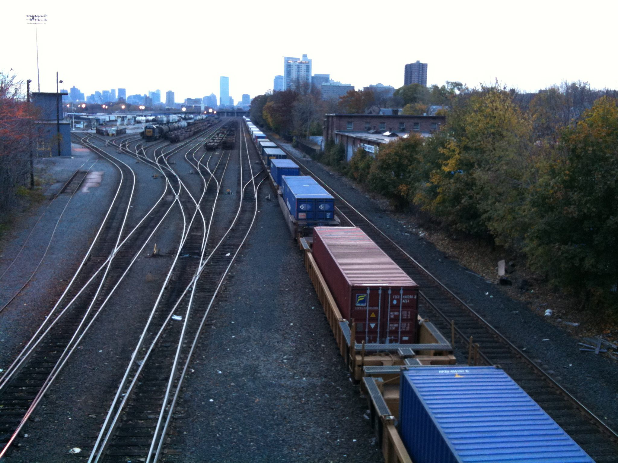 A container train at the CSX Beacon Park rail yard in Boston, Massachusetts at dusk. Because the line to Boston does not have double stack clearances, the top layer of containers is removed further west and only the bottom layer proceeds to this yard for unloading, a process known as Filleting.